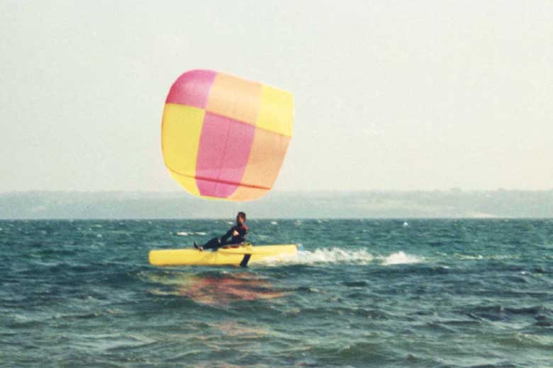 Le trimaran en vol